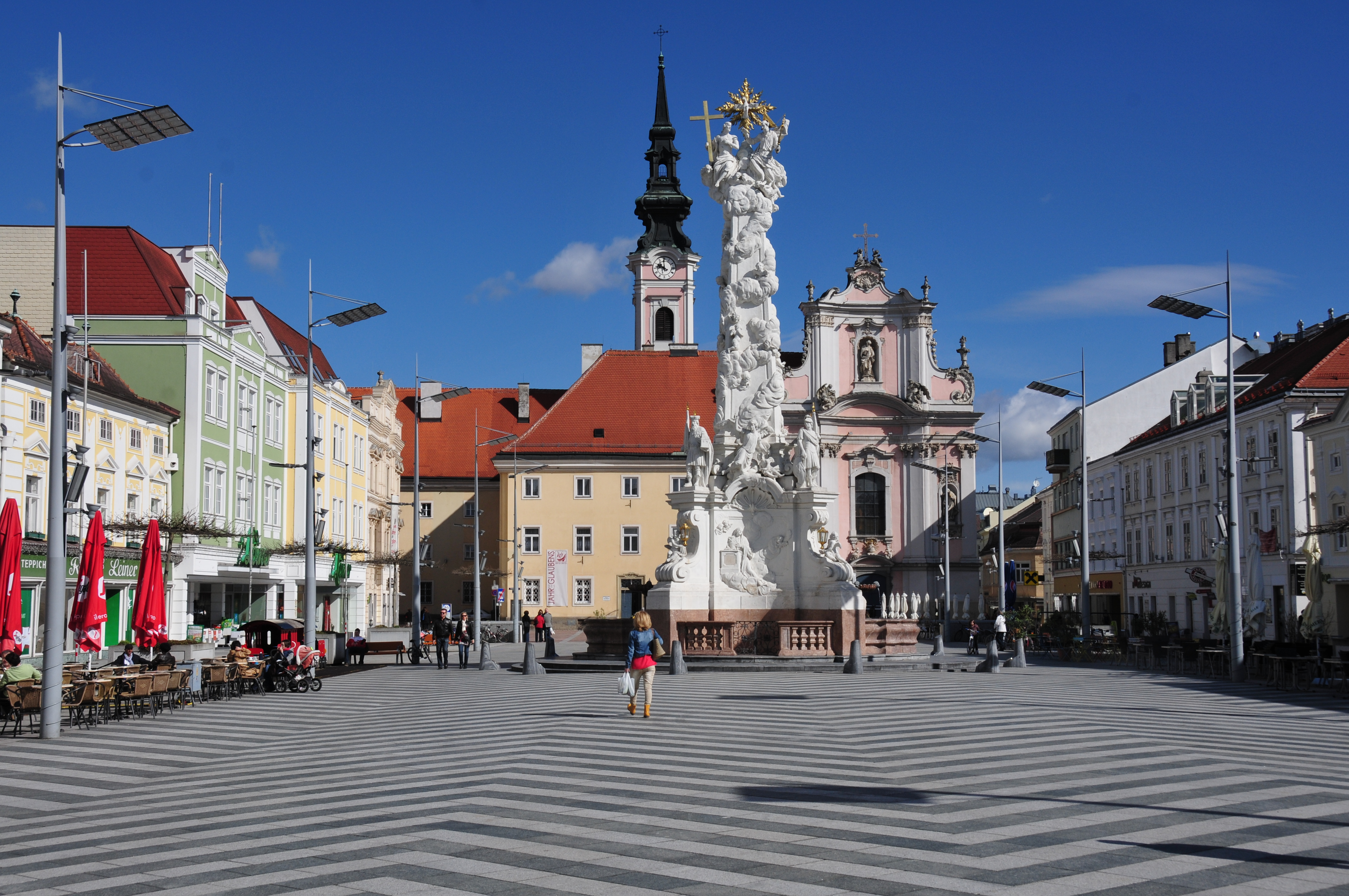 St. Pölten, Austria, Rathausplatz Fotowanderung St. Pölten 13. April 2013 in St. Pölten, Niederösterreich 50mm • Allgemeines • Bahnhof • Domplatz • Fahrräder • Landhausviertel • Rathausplatz